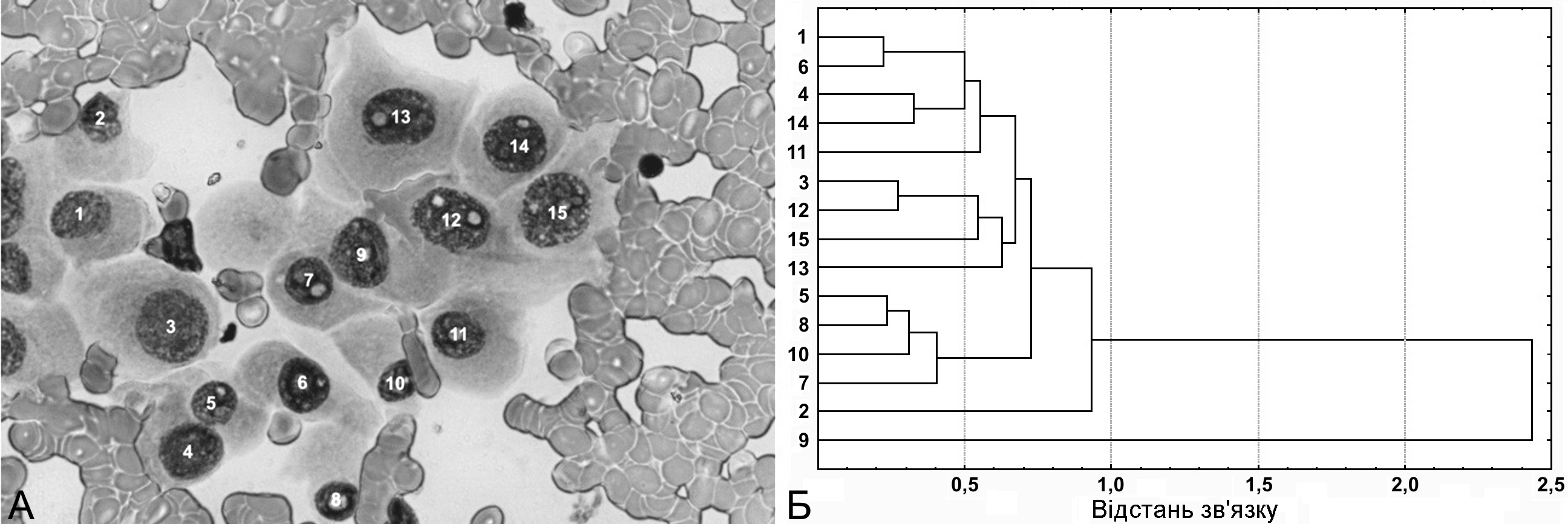 Illustration of hierarchical cluster analysis